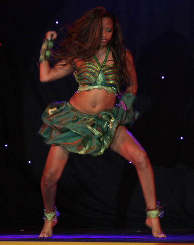 Miss Nigeria 2008 Adaeze Igwe during Miss World 08